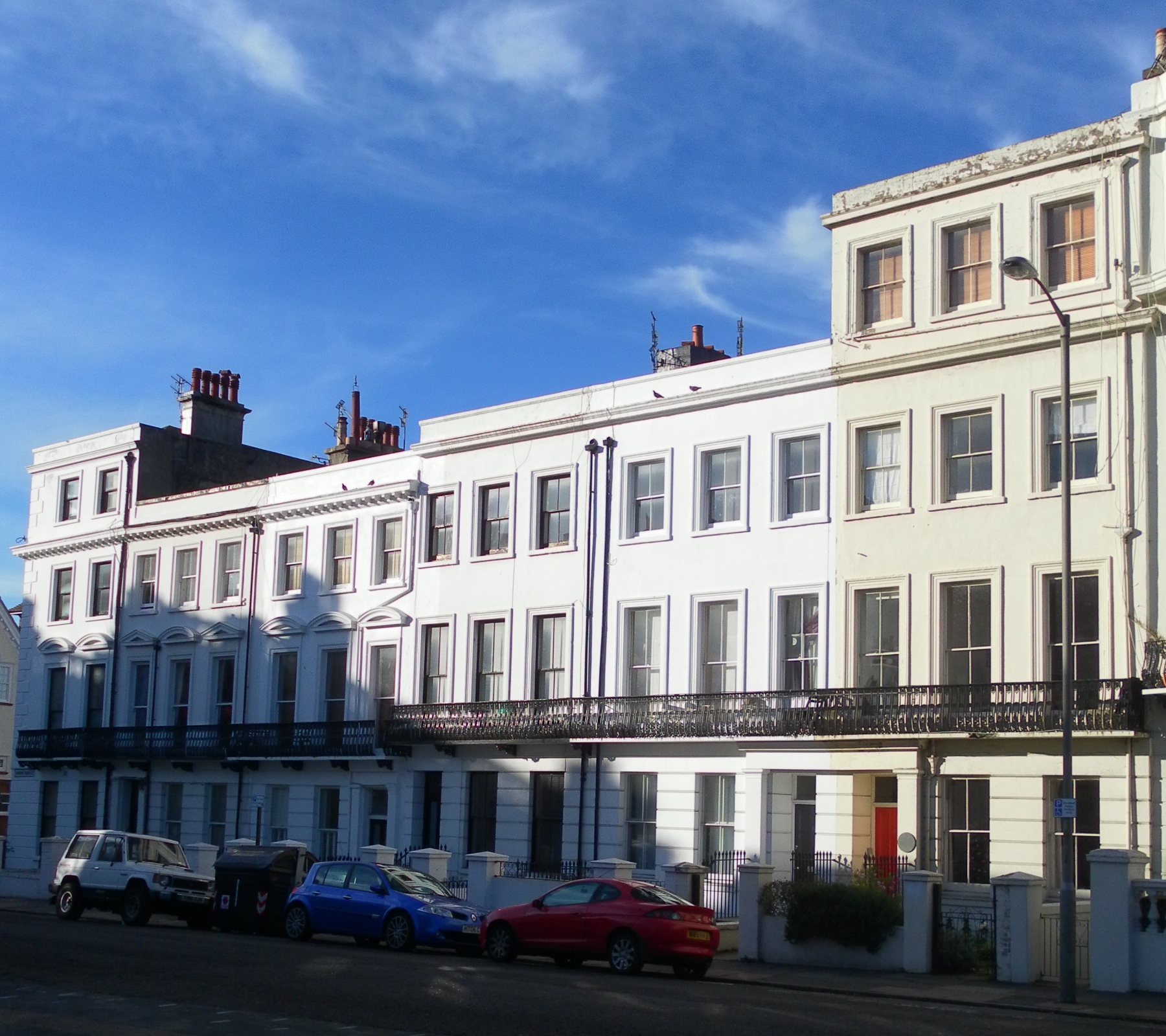 1–6 Vernon Terrace, Montpelier, City of Brighton and Hove, England. Listed at Grade II by English Heritage (NHLE Code 1381070)